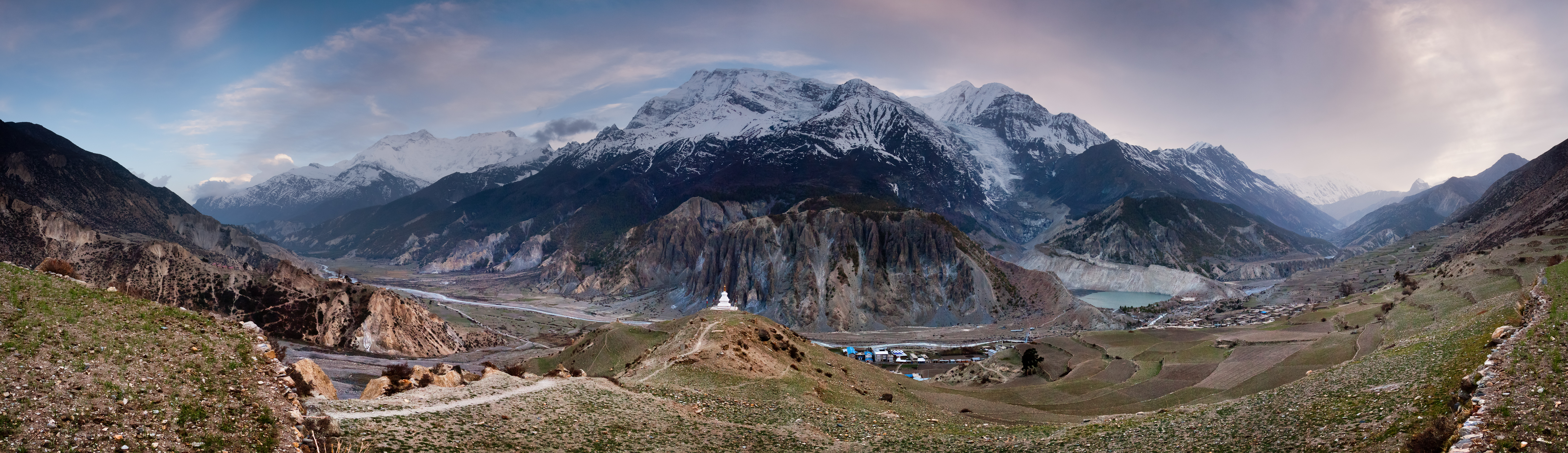 Annapurna massif panorama near Manang village, Nepal